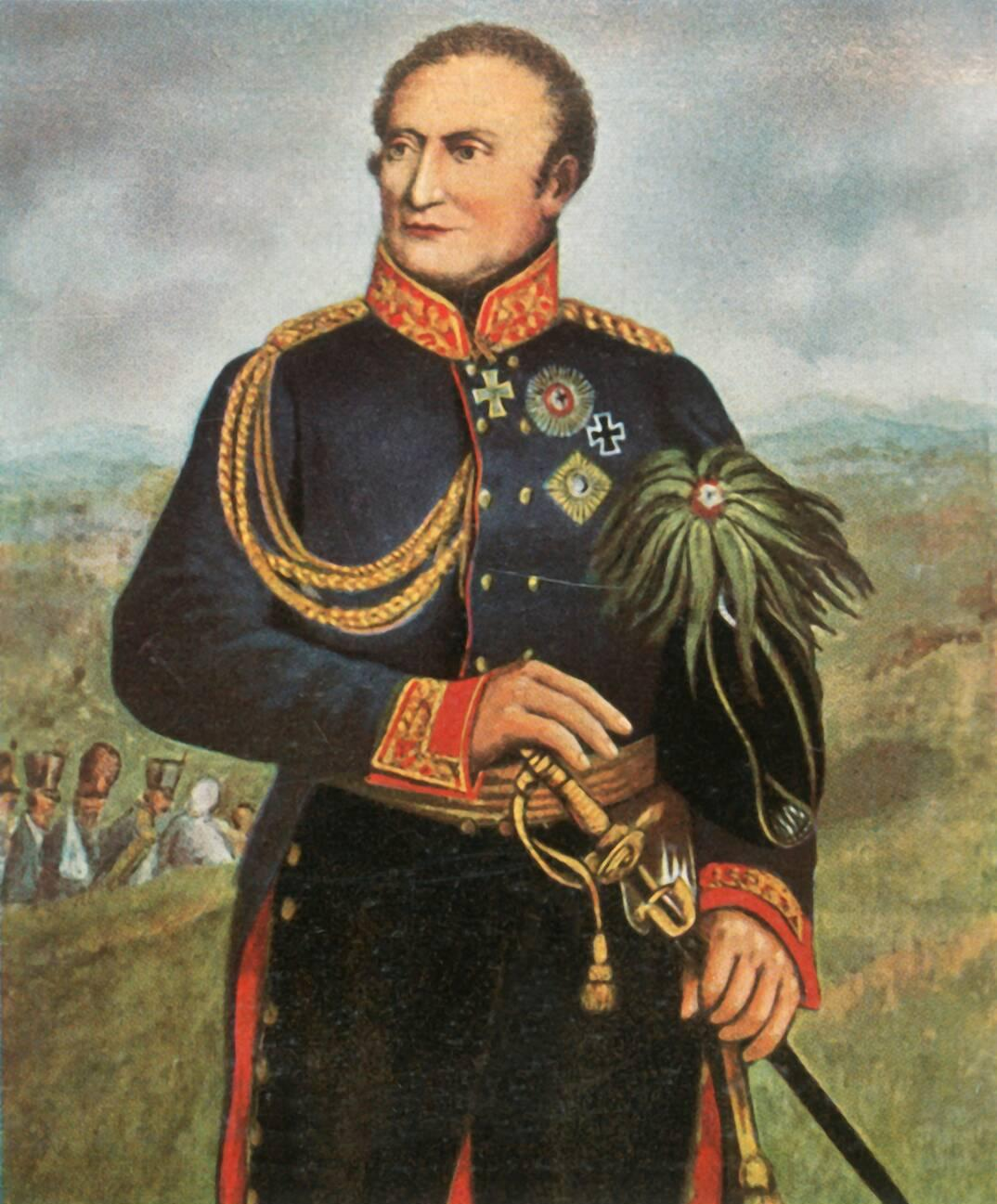 Friedrich Kleist von Nollendorf (1762-1823), Prussian General, since 1814 Friedrich Count Kleist von Nollendorf Holzschnitt/woodcut